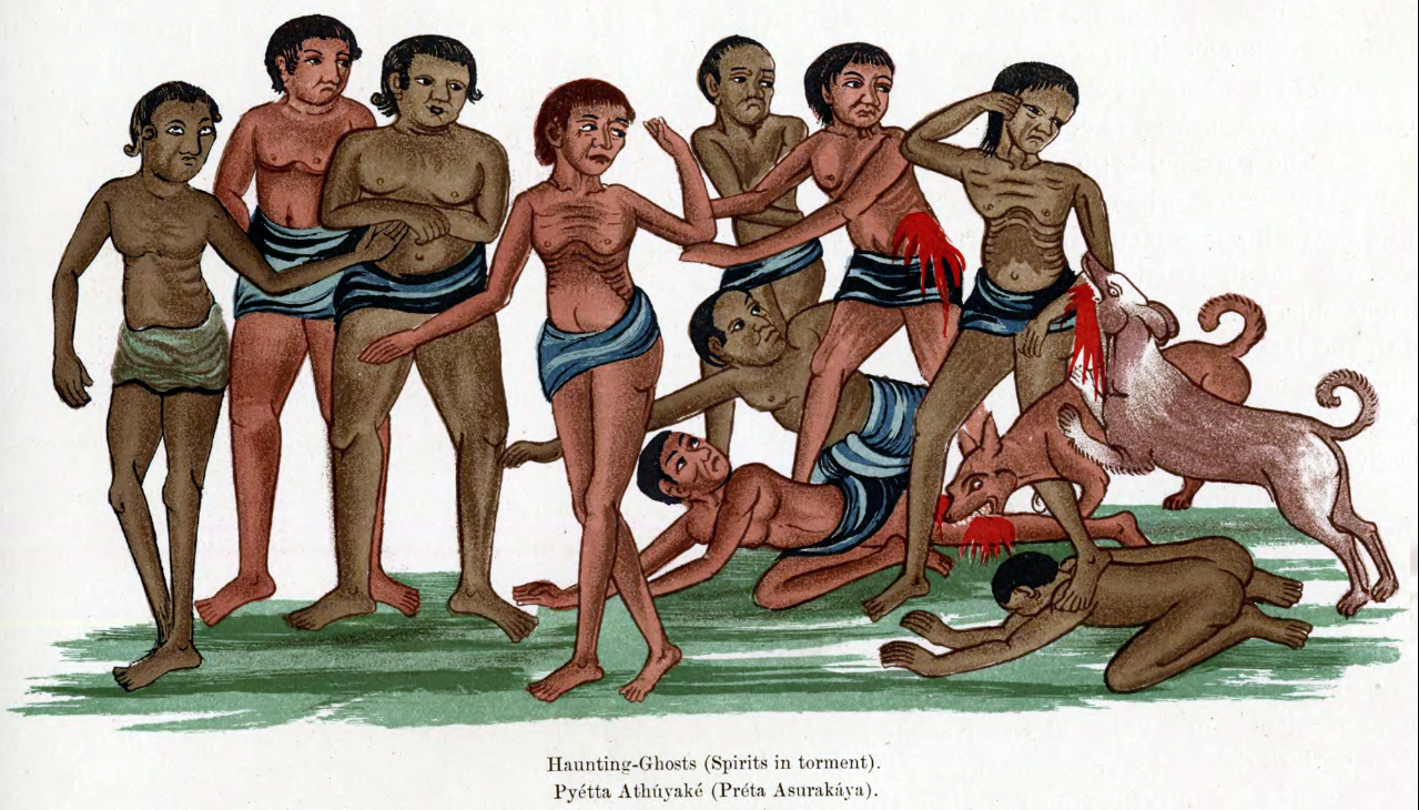 Hungry ghosts in Burmese representation